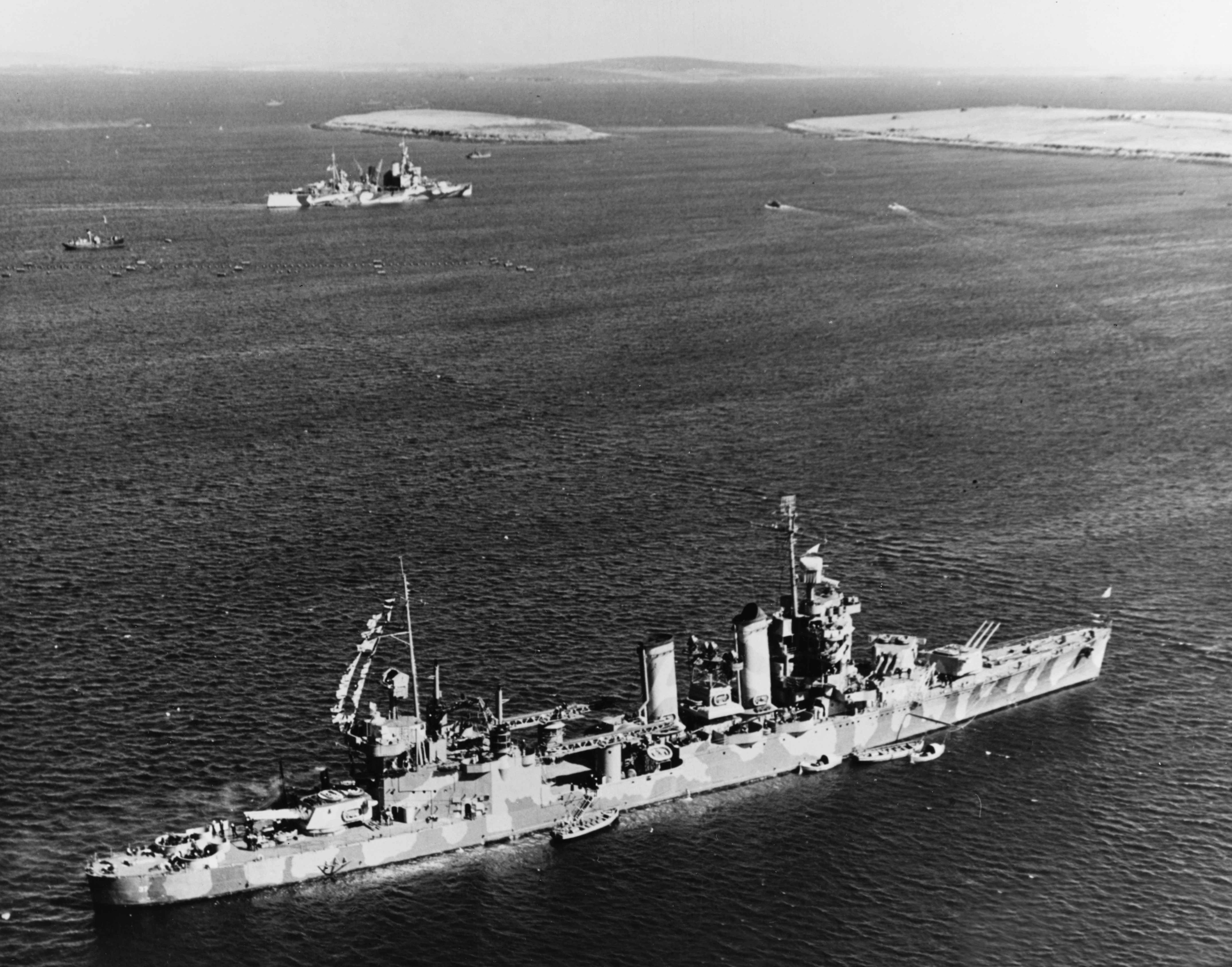 The U.S. Navy heavy cruiser USS Tuscaloosa (CA-37) moored in Scapa Flow, in April 1942, while she was operating with the British Home Fleet. The British heavy cruiser HMS London (69) is in the background.